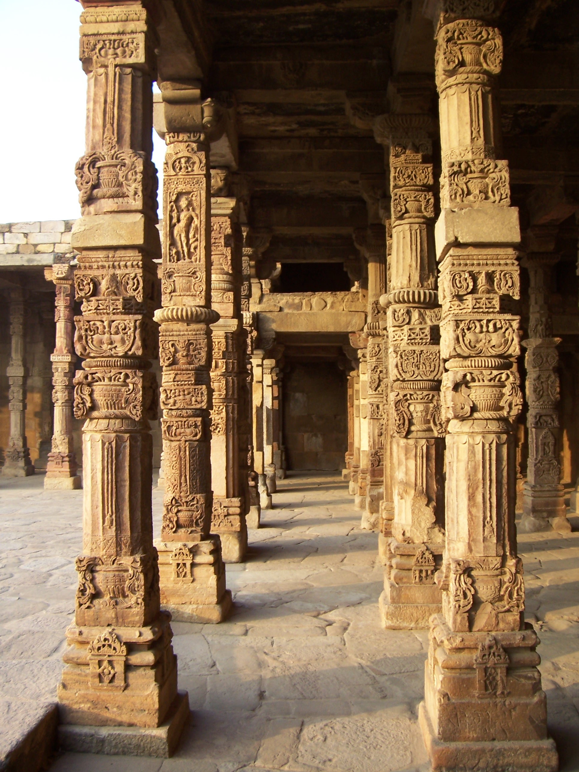 Intricate stone carvings in the cloister of Quwwat ul-Islam mosque, near Qutub Minar.